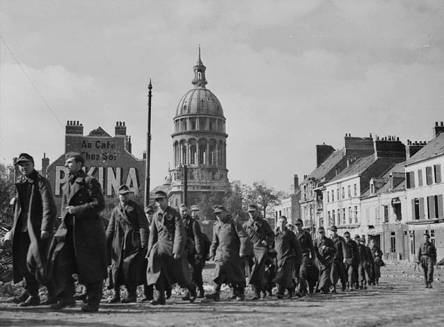 Prisonniers allemands marchant dans Boulogne.